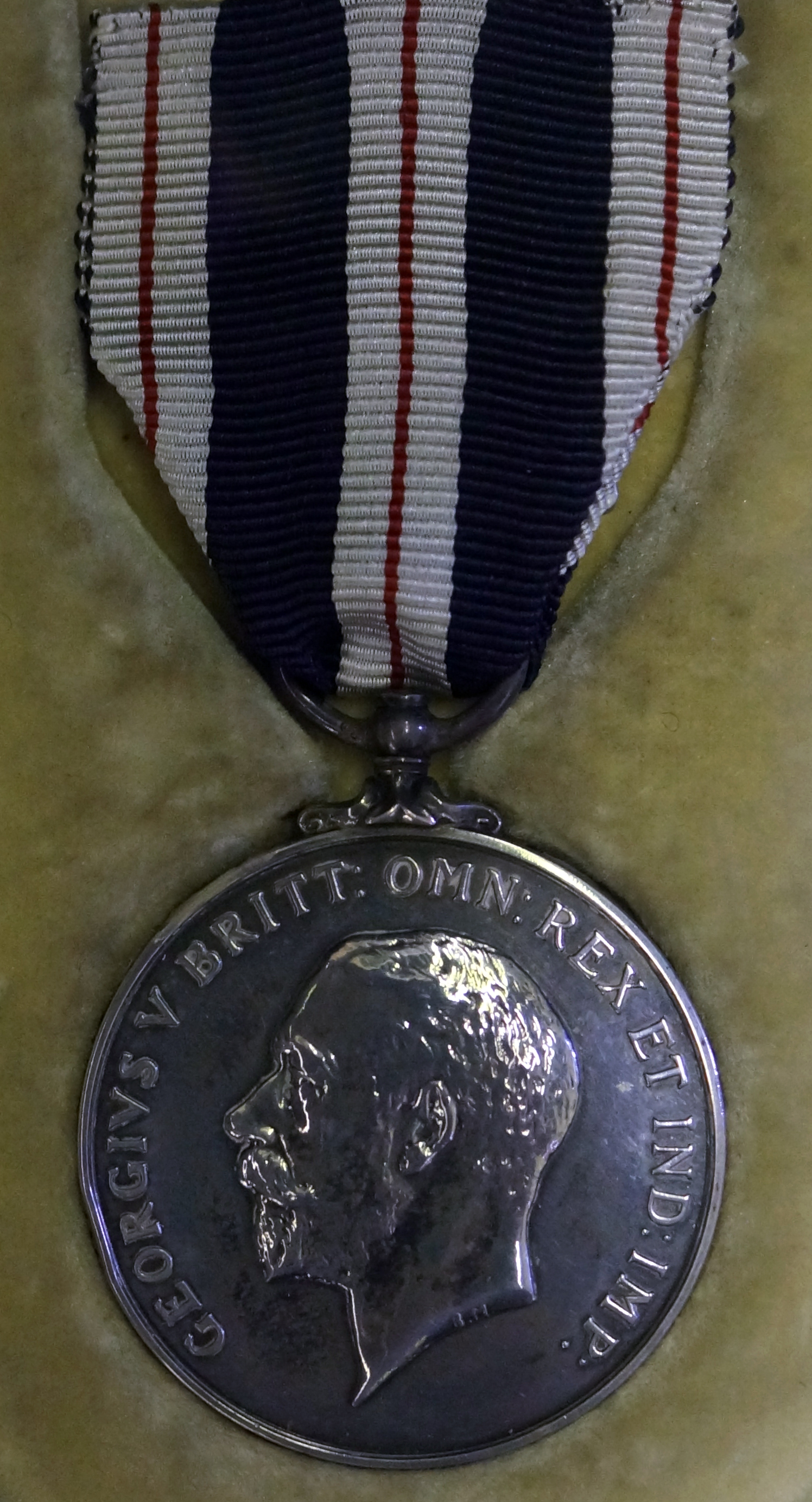 King's Police Medal for Gallantry in West Midlands Police Museum, Sparkhill, Birmingham, England. Awarded to P.C. 'E' Joseph Phillips for rescuing Superintendent Boulton from rioters in Liverpool, 1911.